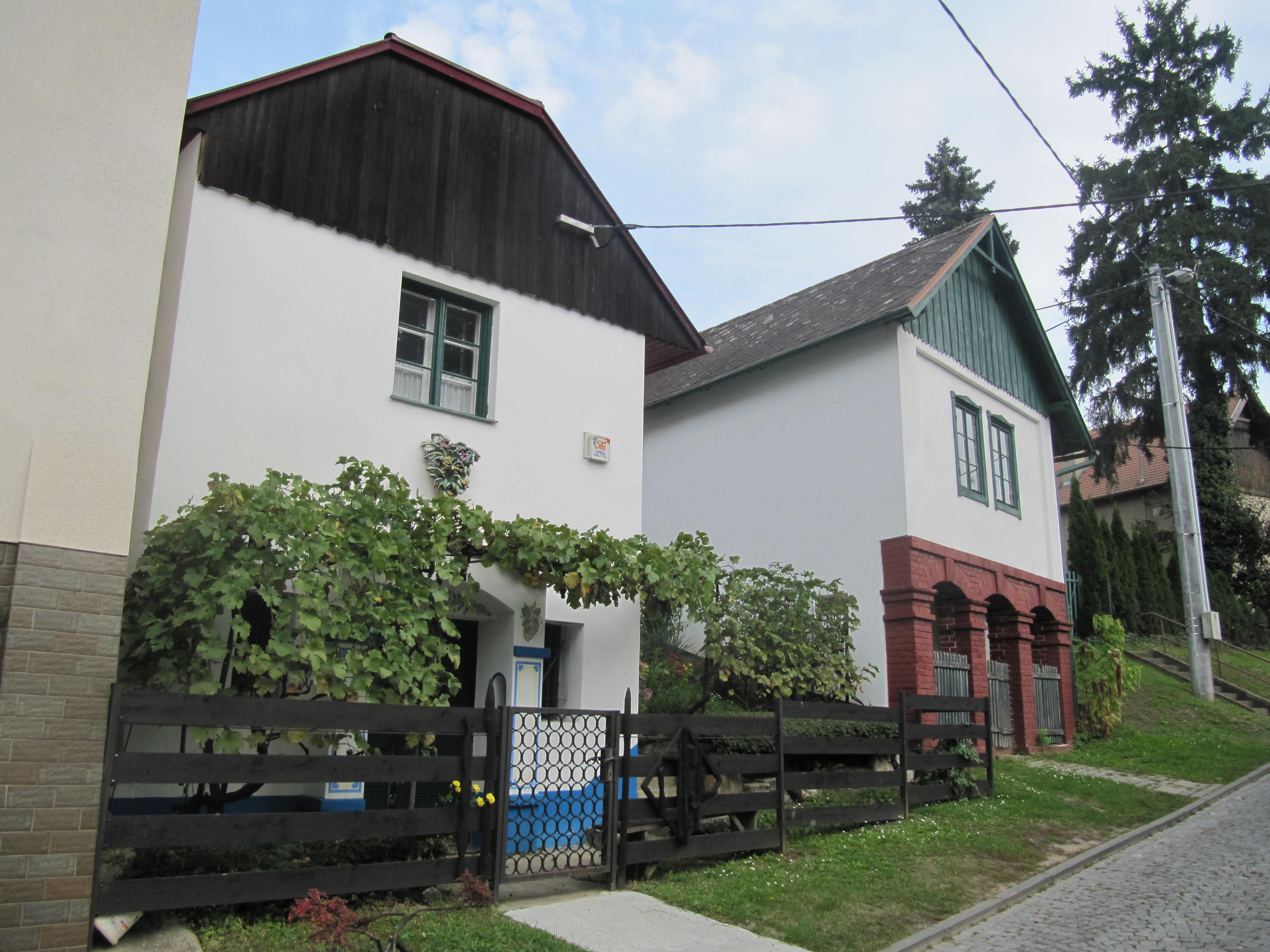 Uherské Hradiště, part Mařatice, Czech Republic.Wine cellars in Vinohradská street.